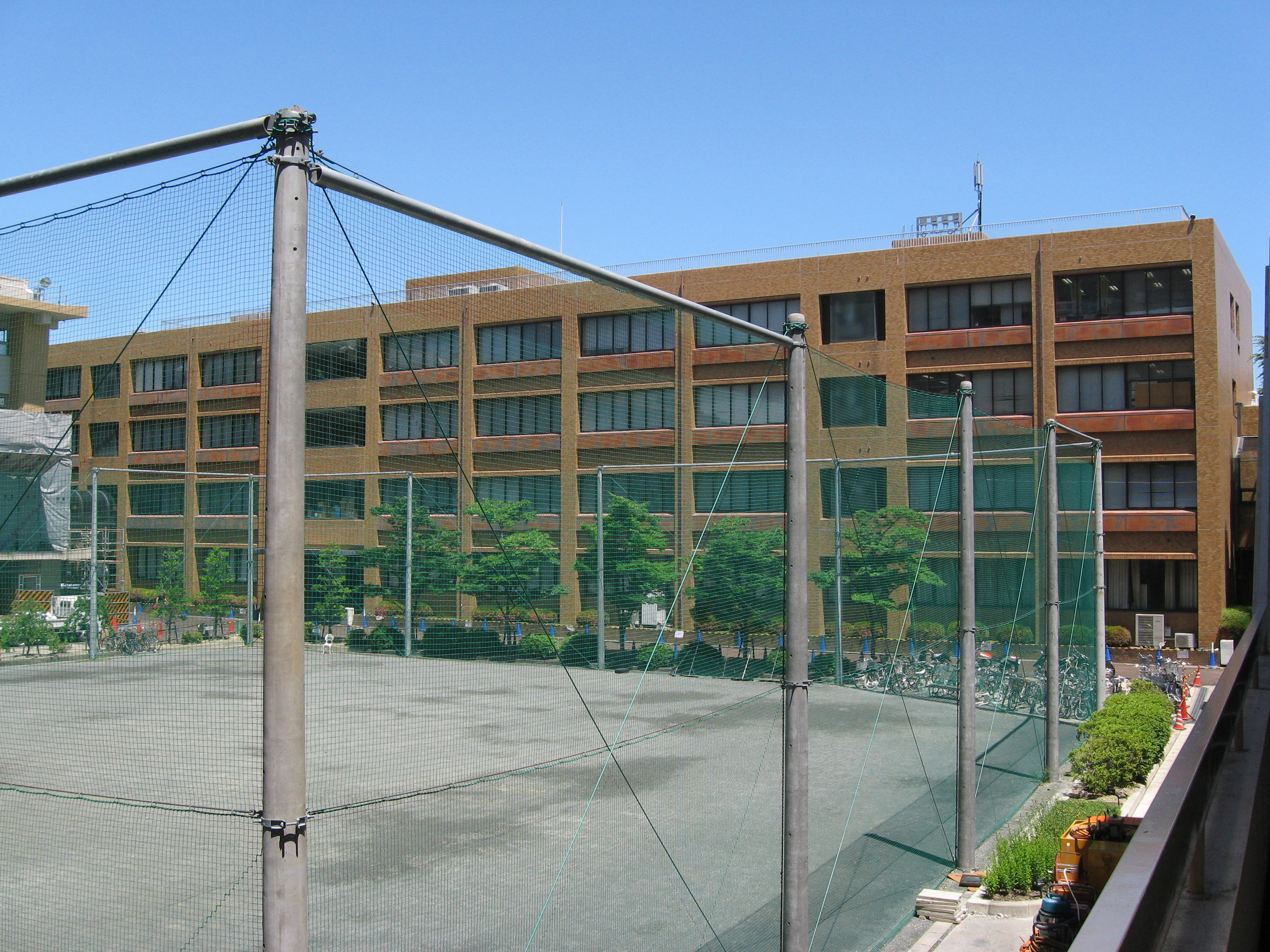 Aichi Gakuin University Kusumoto Campus (School of Dentistry & Athletic Ground)